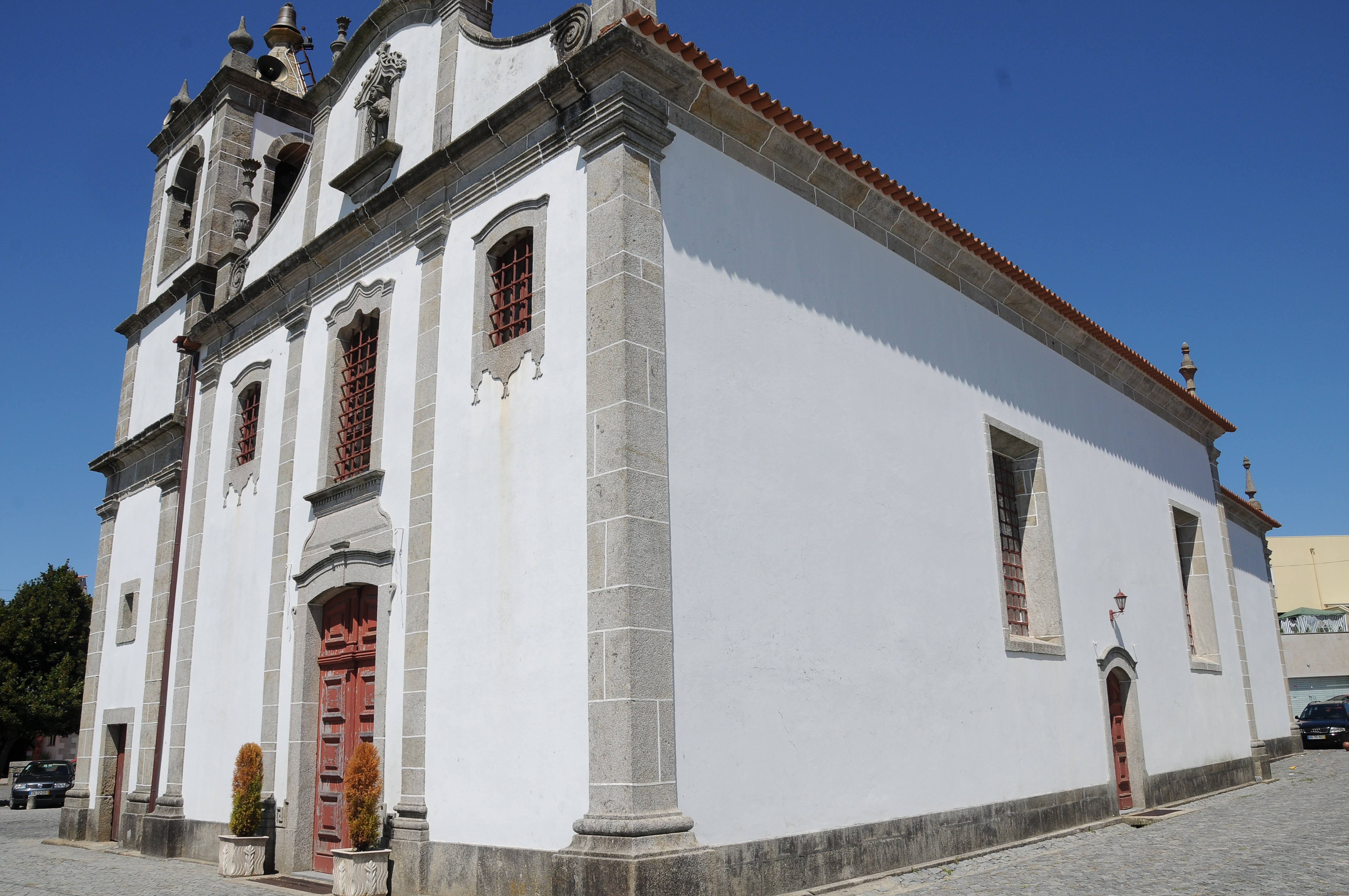 Vila Cova Church, Barcelos, Portugal.